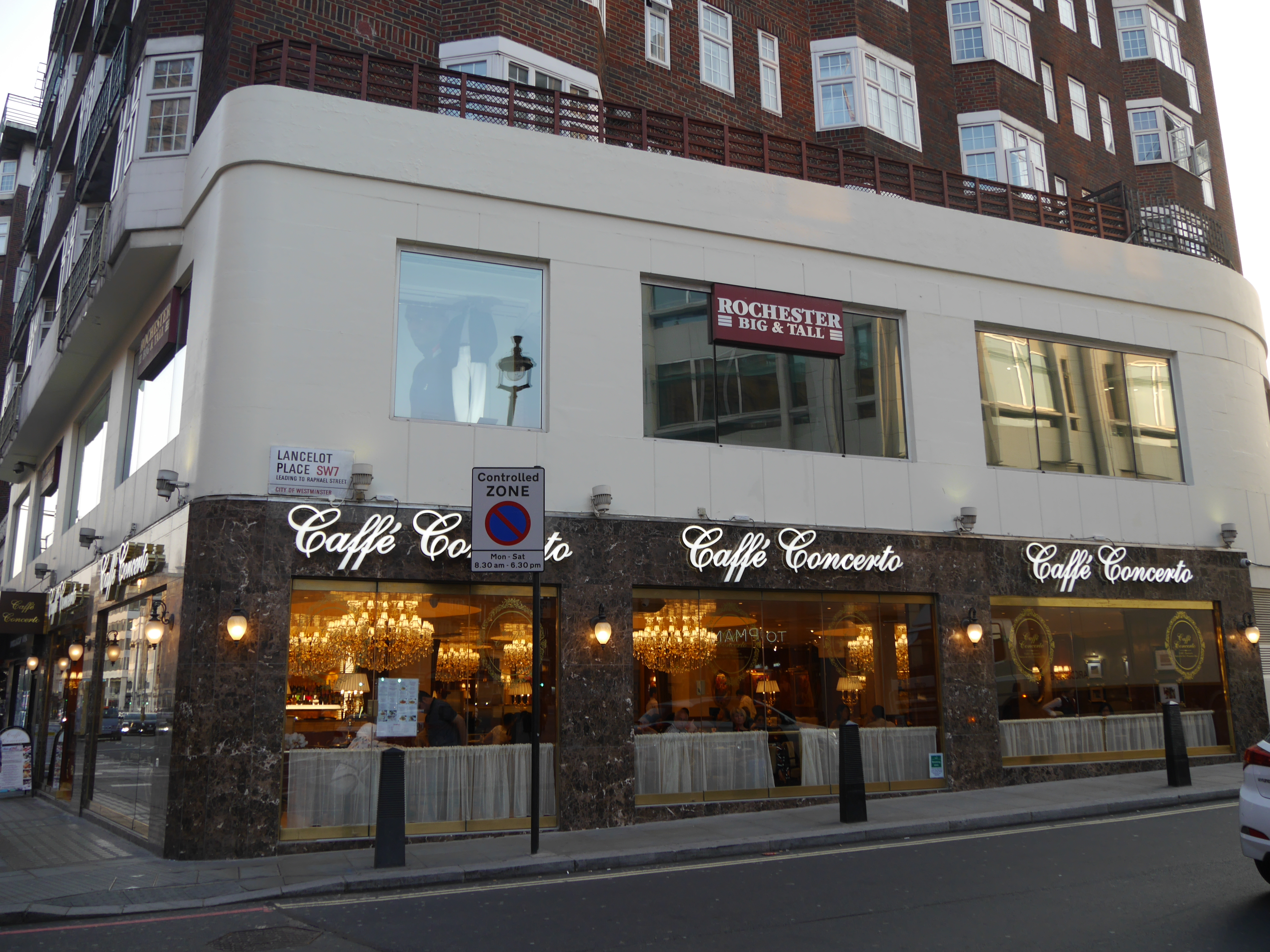 Brompton Road, London, June 2016